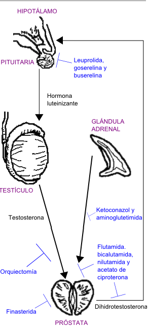 Development of the prostate hormonal treatement